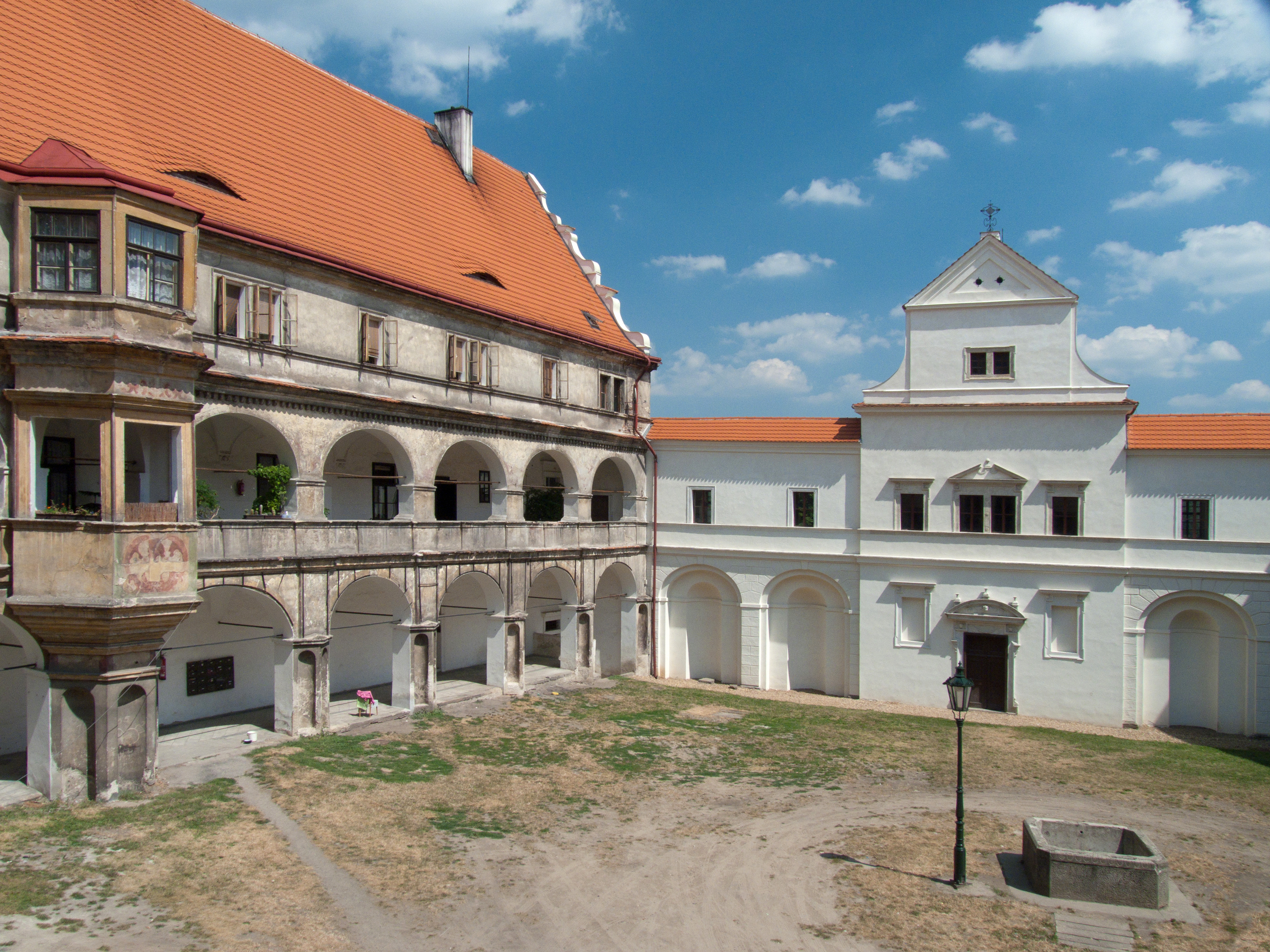 Courtyard of the chateau in the town of Bělá pod Bezdězem, Česká Lípa District, Czech Republic, housing the local museum